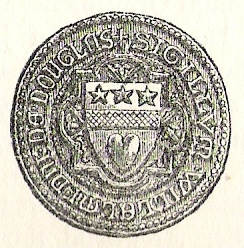 Seal of Lord of Douglas 1332